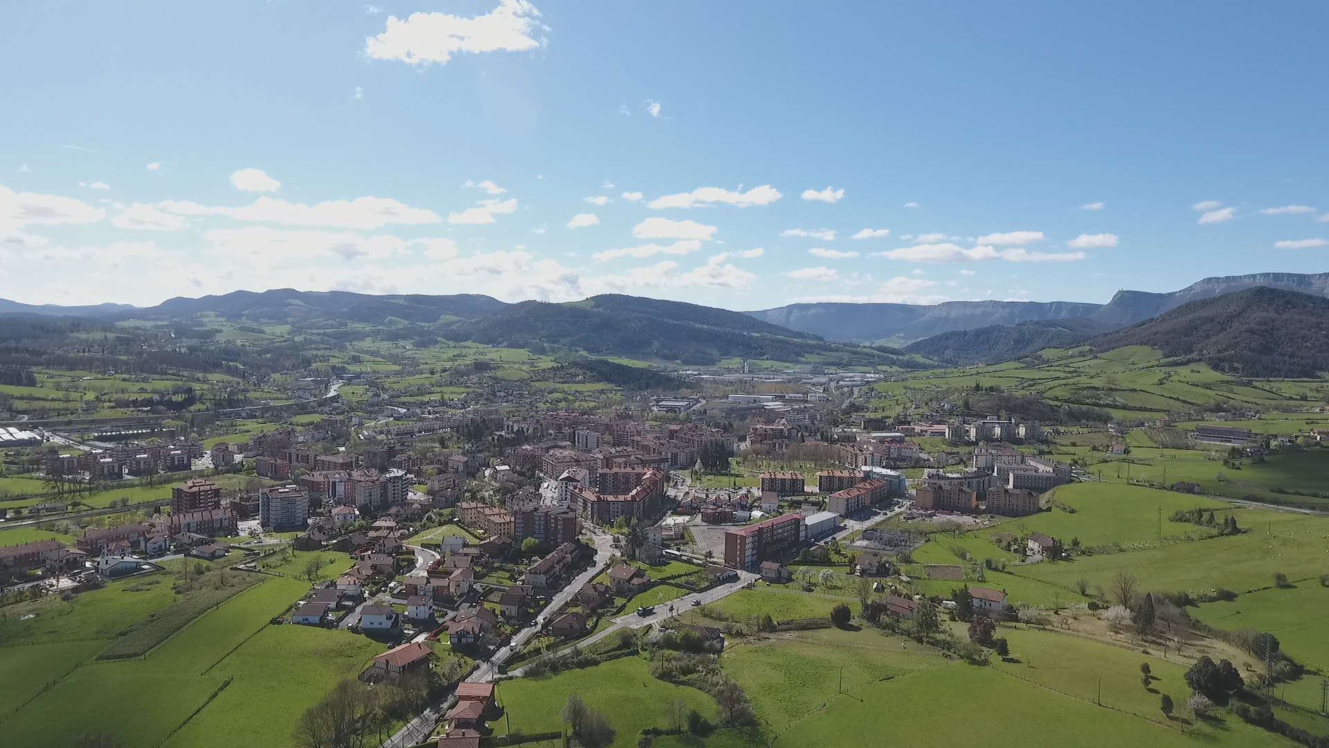 Amurrio, Araba, Basque Country